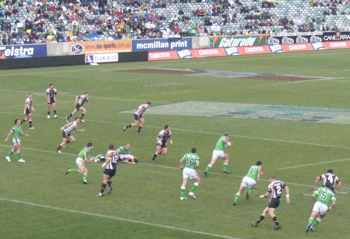 I took this photo, Canberra stadium, Wests vs Raiders, 17 july 2006 (raiders won 20-18 in Golden point extra time)